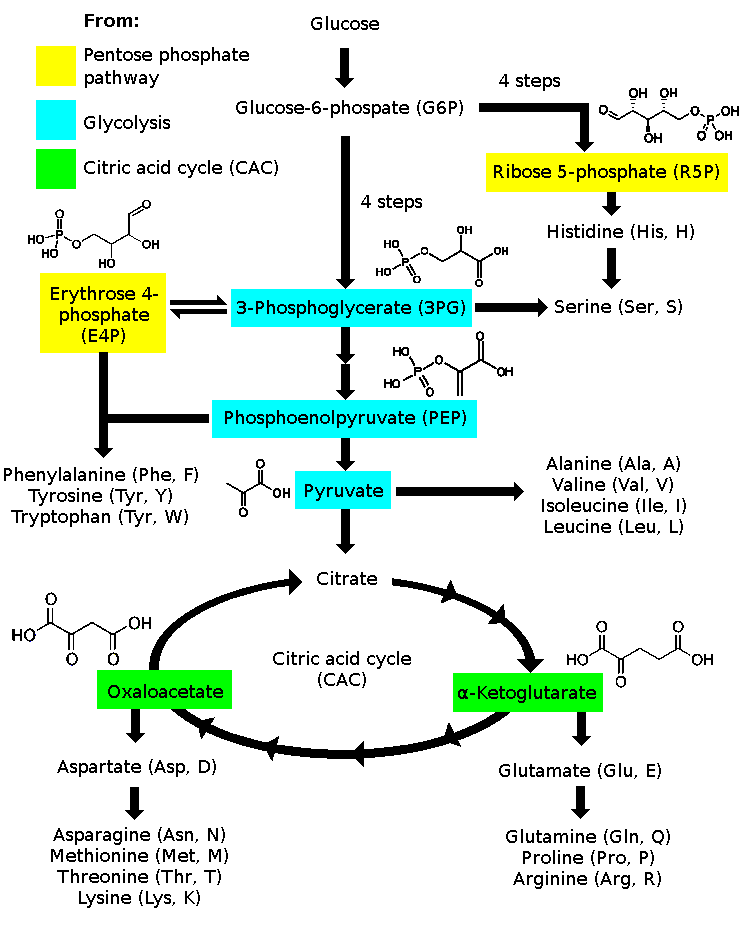 The drawn molecules are in their neutral forms and do not fully correspond to their presented names. Humans can not synthesize all of these amino acids.